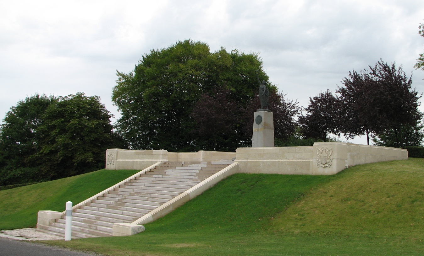 Monument of Missouri in Cheppy, Meuse department, Lorraine, built by the state of Missouri after the WWI to honour its volunteers.